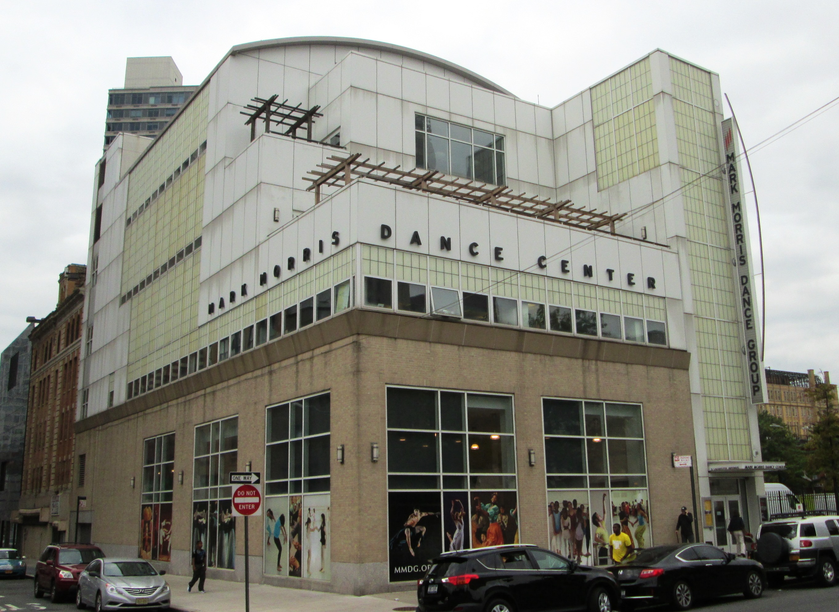 The Mark Morris Dance Center, at 3 Lafayette Avenue at the corner of Rockwell Place in the Fort Greene neighborhood of Brooklyn, New York City, is the home of the Mark Morris Dance Group, which purchased the derelict building in 1998. It was renovated from 1999-2001 by Beye Blinder Belle. The dance compnay was founded in 1980. (Source: [1] and [2])